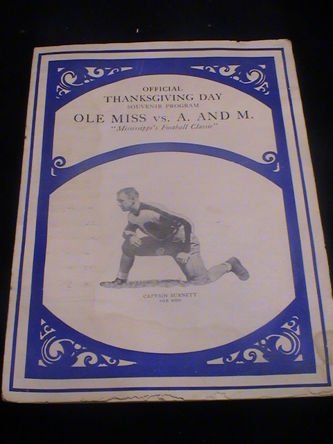 Photo of my 1929 Ole Miss vs. Mississippi A&M football program